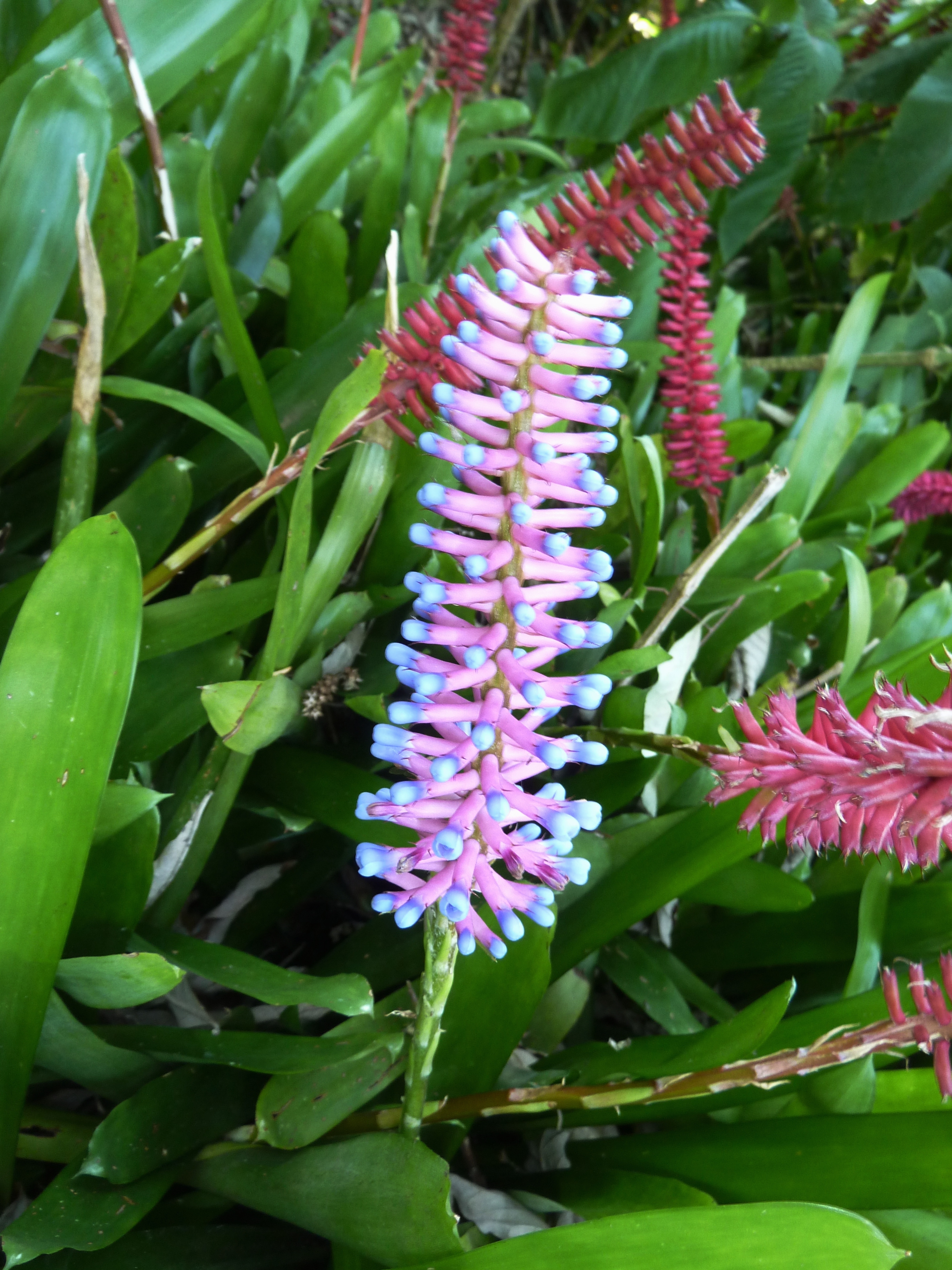 A Matchstick plant in the Manie van der Schijff Botanical Garden, Pretoria